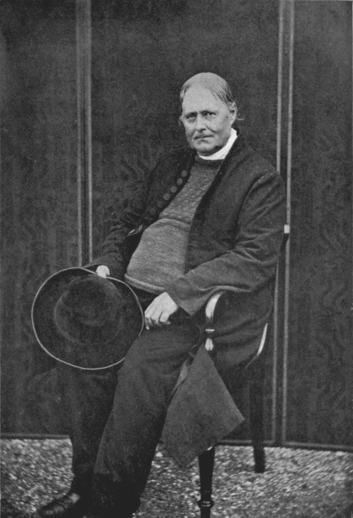 Robert Stephen Hawker at the age of 61